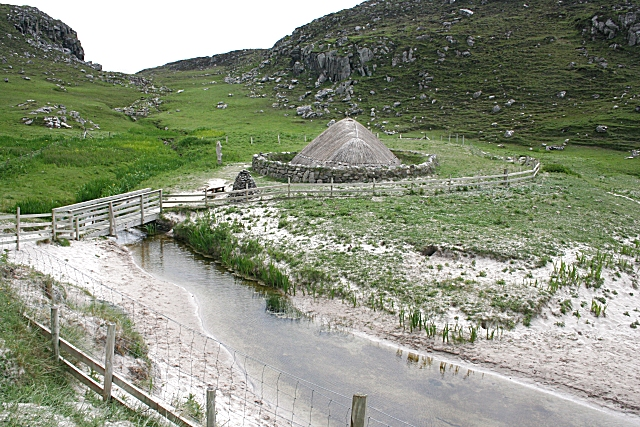 Iron Age Village Although marked on the map as an Iron Age village, this is in fact a reconstruction of a single Iron Age house. On 3 June 2009 there was a notice outside saying it was closed due to berevement [sic].